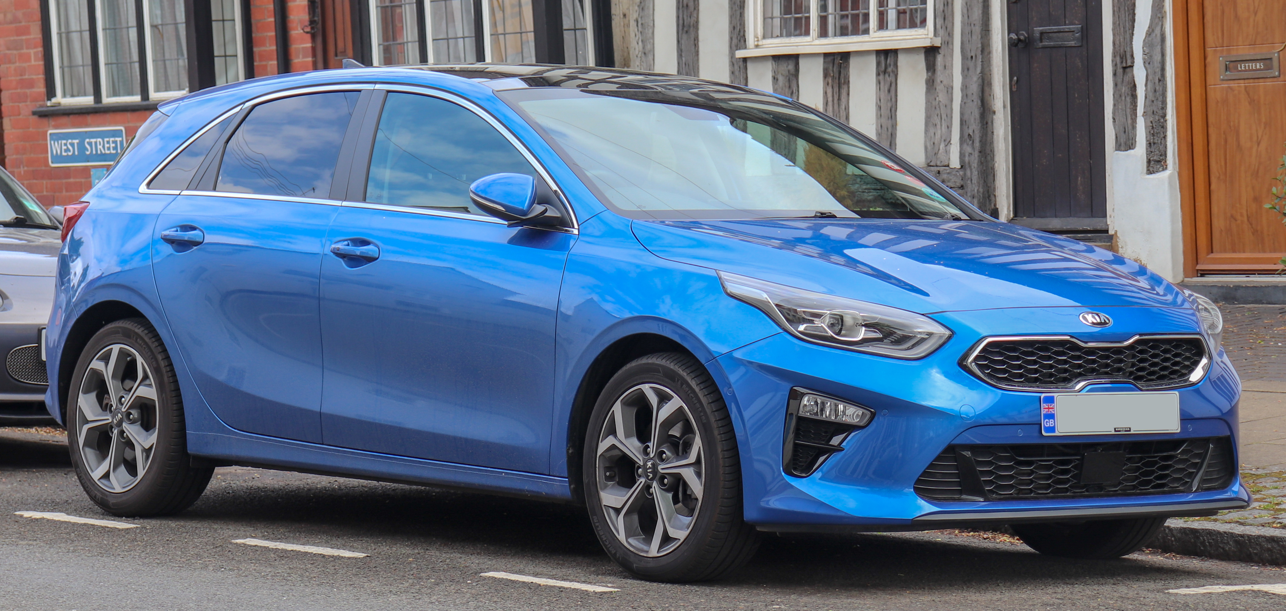 2018 Kia Ceed First Edition 1.4 Front Taken in Warwick